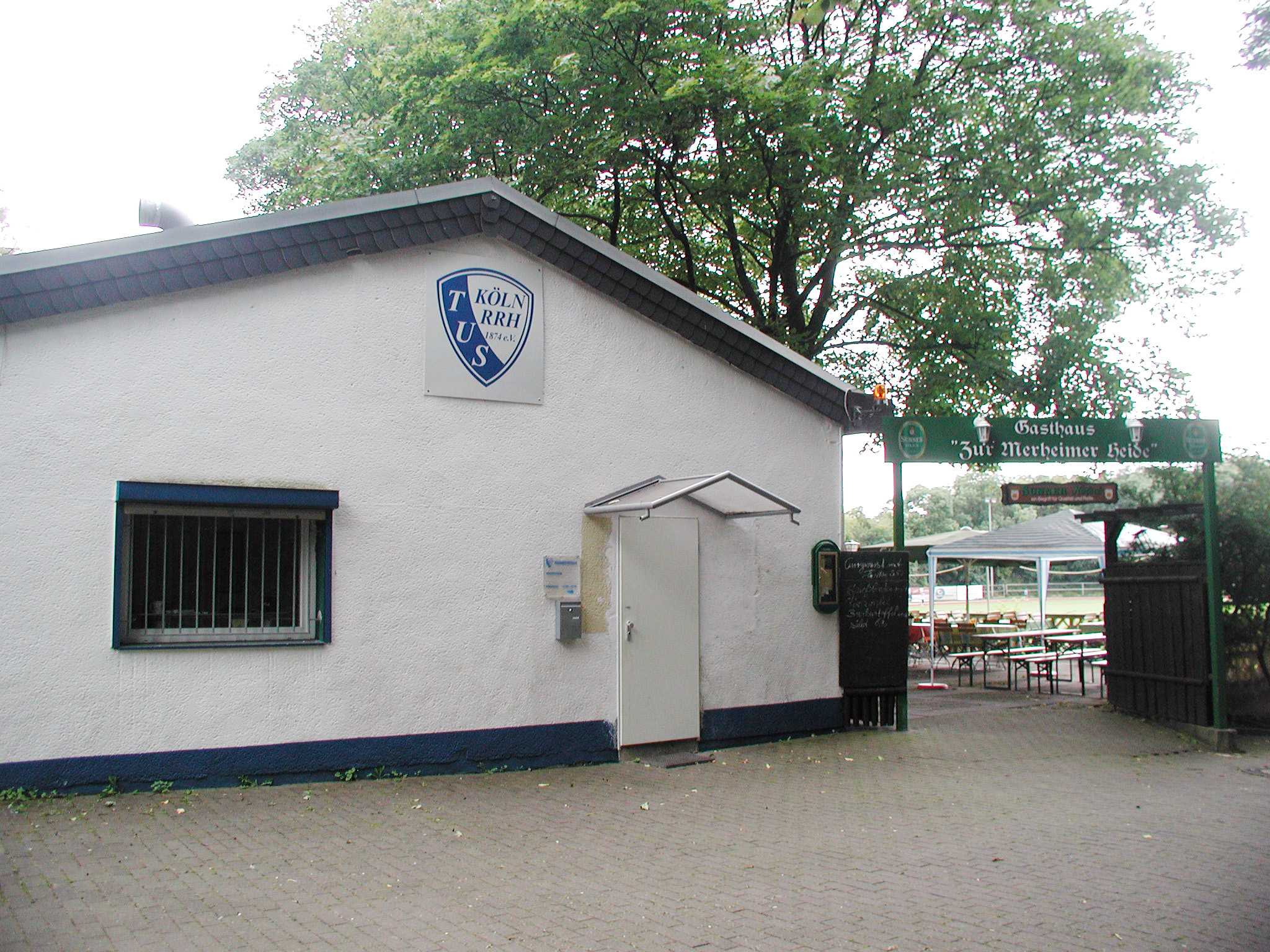 Cologne, football club "TUS RRH Kalk"